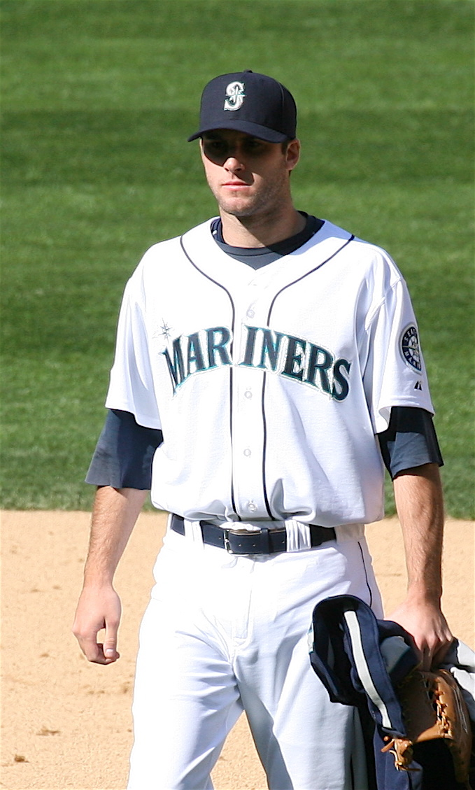 Brandon Morrow of the Seattle Mariners.